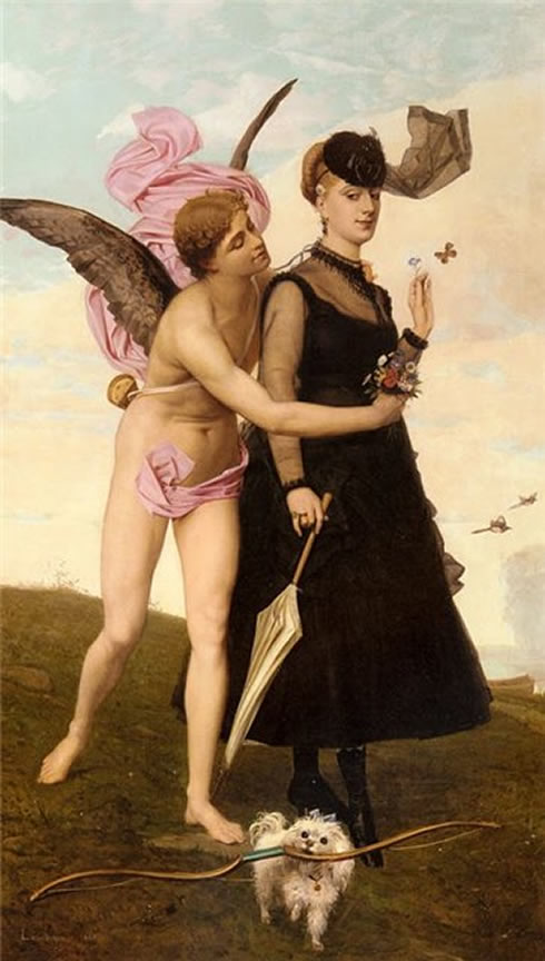 A painting dated 1869, possibly referring to La Fontaine's fable of "The Young Widow" by Albert-Anatole-Martin-Ernest Lambron Des Piltieres